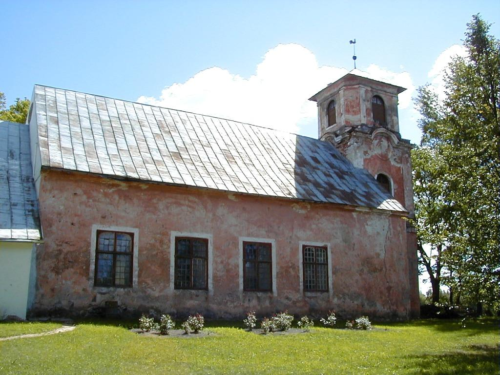 Madliena church